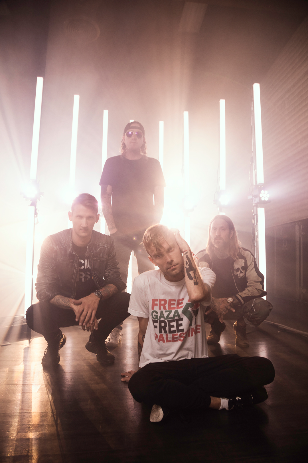 The Band, "The Used"